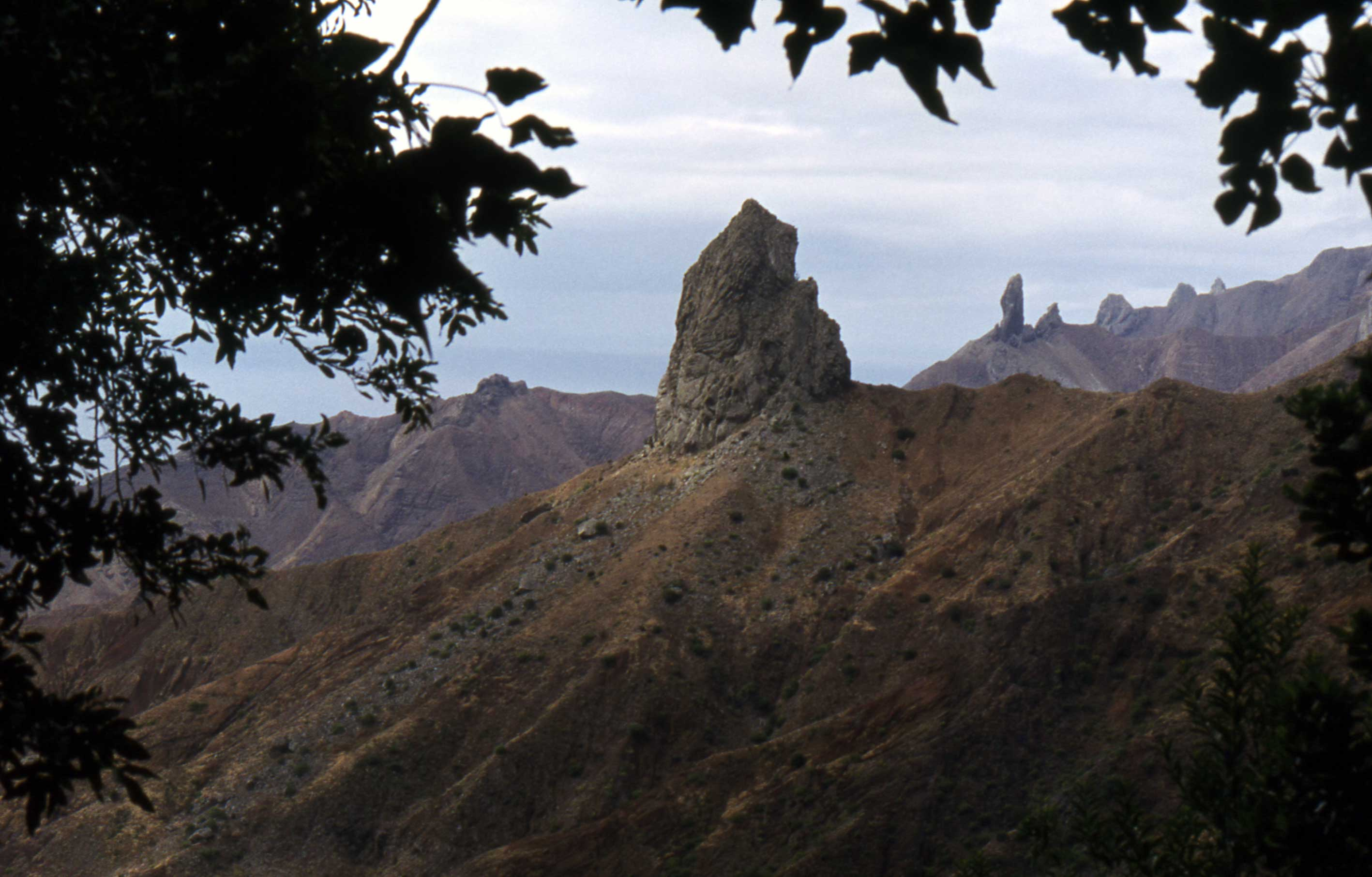 "Lot" (foreground) and "Lot’s wife", Saint Helena Island.